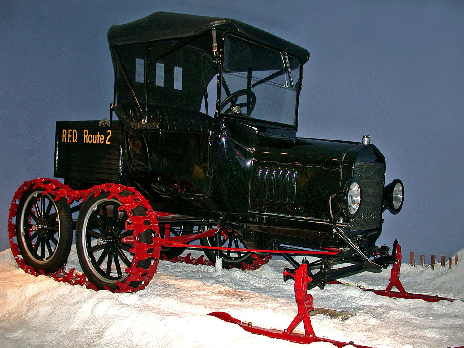 Rural Free Delivery (RFD) carrier Harold Crabtree of Central Square, New York, used this 1921 Ford Model-T. The front wheels were interchangeable with skis and the rear tires accommodated tank-like treads, allowing the vehicle to move more easily over snow and ice. The attachment, named Snowbird, was manufactured by F.S. Manufacturing Company of New Holstein, Wisconsin. The company advertised it as the “mailman’s special.” Manufacturers advertised the snowmobile attachment as easy to install. Northern carriers who had purchased automobiles for their routes learned quickly that their new cars were often no match for deep snow. For many, the only option was to use their horses and old wagons during bad winters. The Snowmobile Company of West Ossipee, New Hampshire, was talking to those carriers when it asked them to consider if they could “afford to own and feed horses 12 months in the year simply for use during the winter season?” Just as they had done with their wagons in years past (switching the body of their RFD wagon from wagon wheels to runners for the winter months), carriers began using snowmobile attachments on their automobiles.